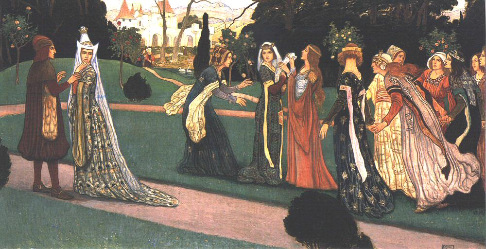 Historia Klary Zach I